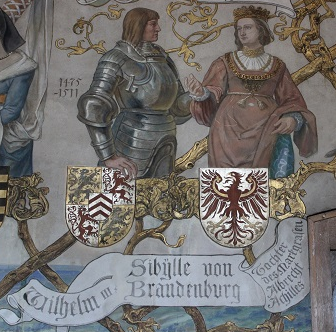 Sybille of Brandenburg with her husband, William. At Castle Burg in Solingen, Germany.